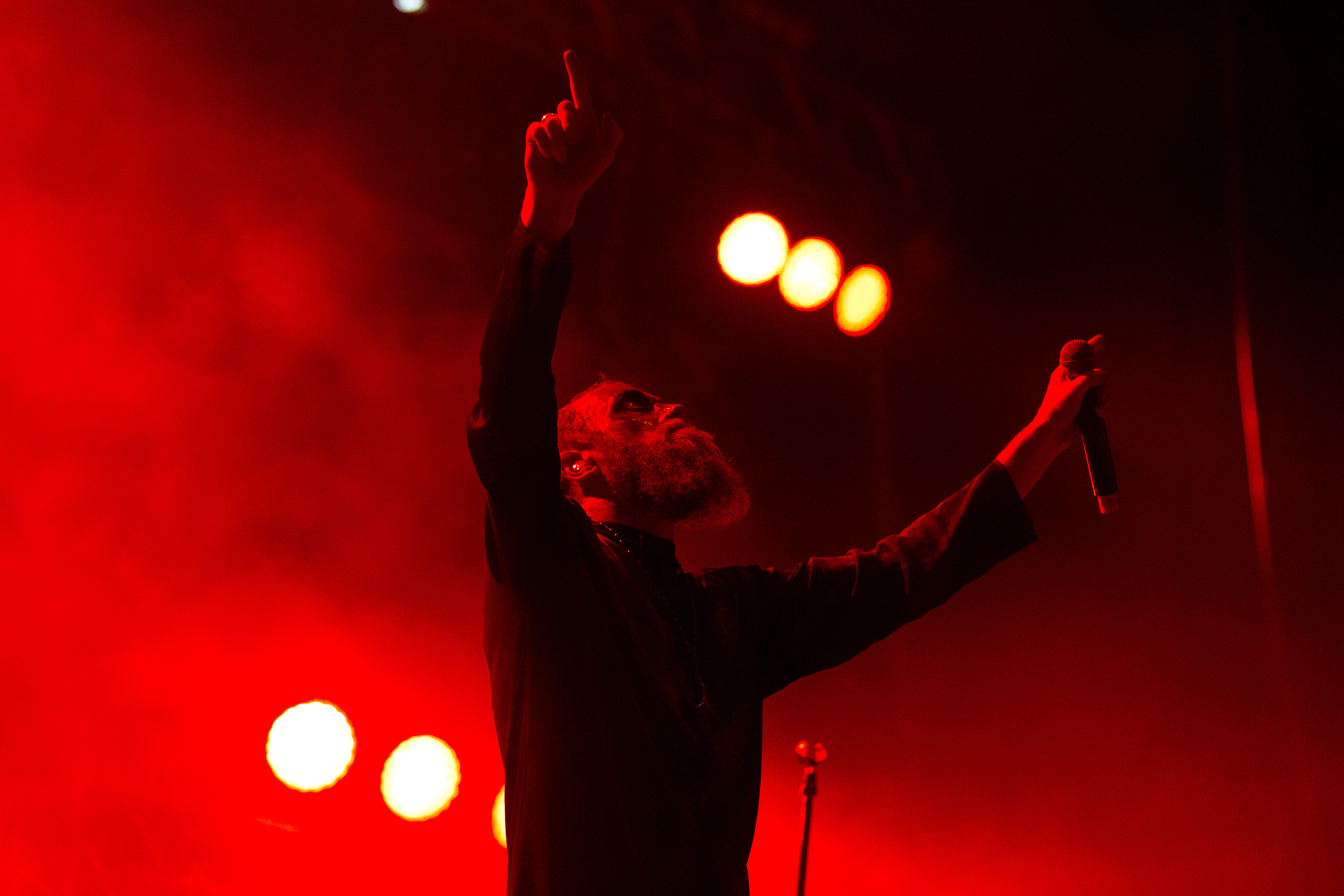 The Swedish death metal supergroup Bloodbath at the Party.San Open Air 2015 in Obermehler-Schlotheim/Germany.